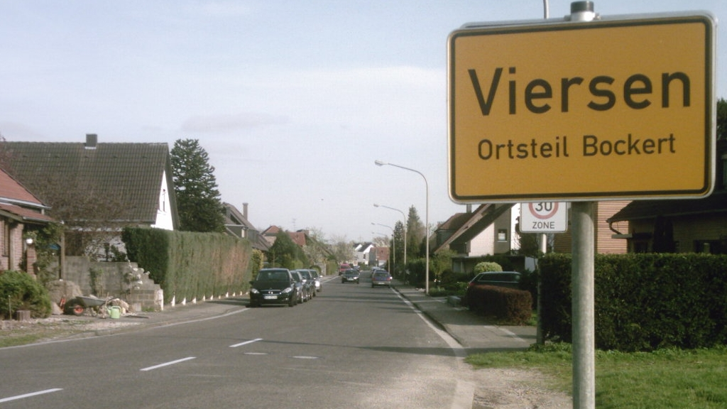 City limit sign in Bockert, Viersen, Germany